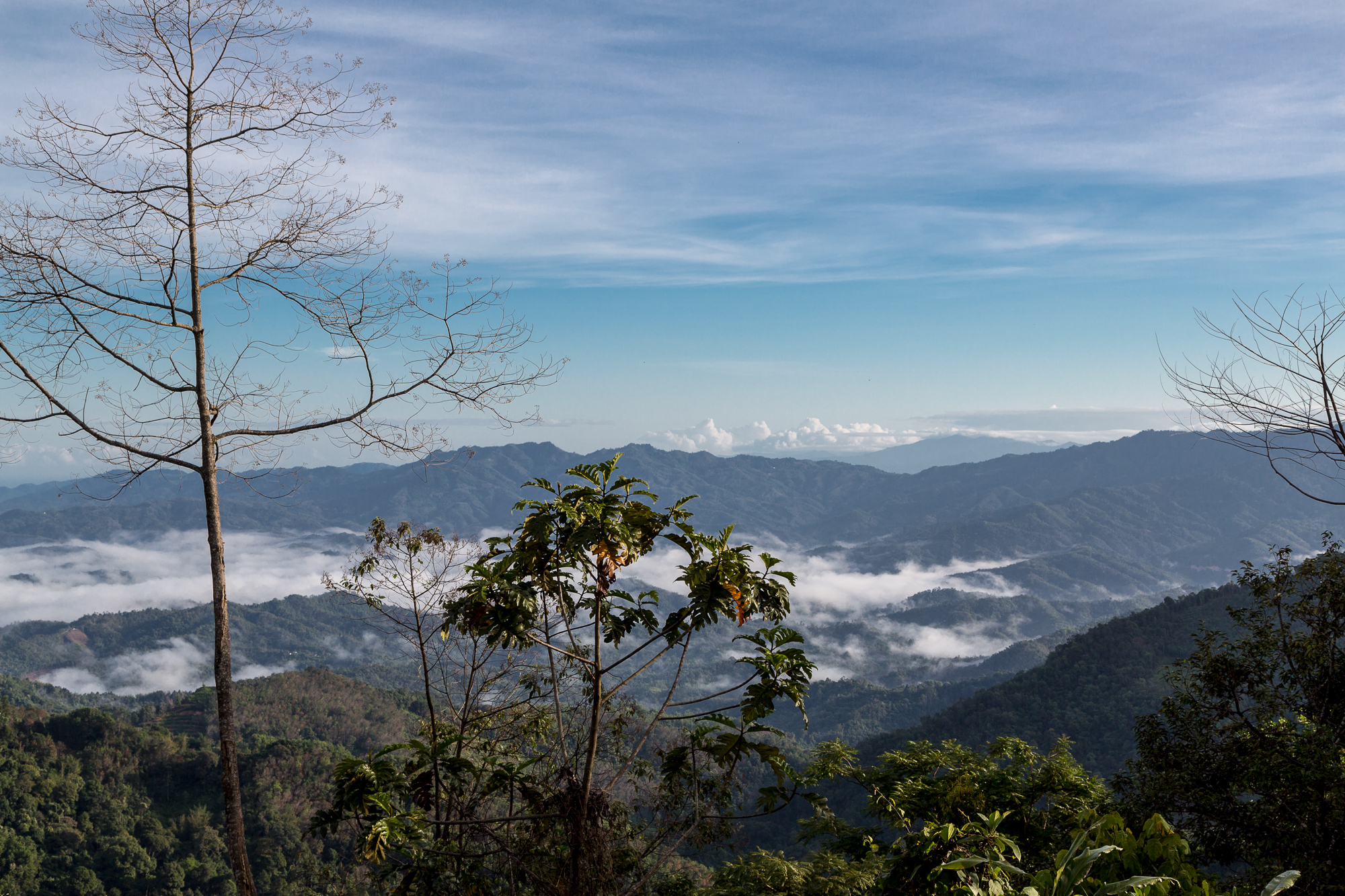 Tamparuli-Ranau-Road, Sabah: View of the crocker mountain ranges from a place in the west of Mount Kinabalu